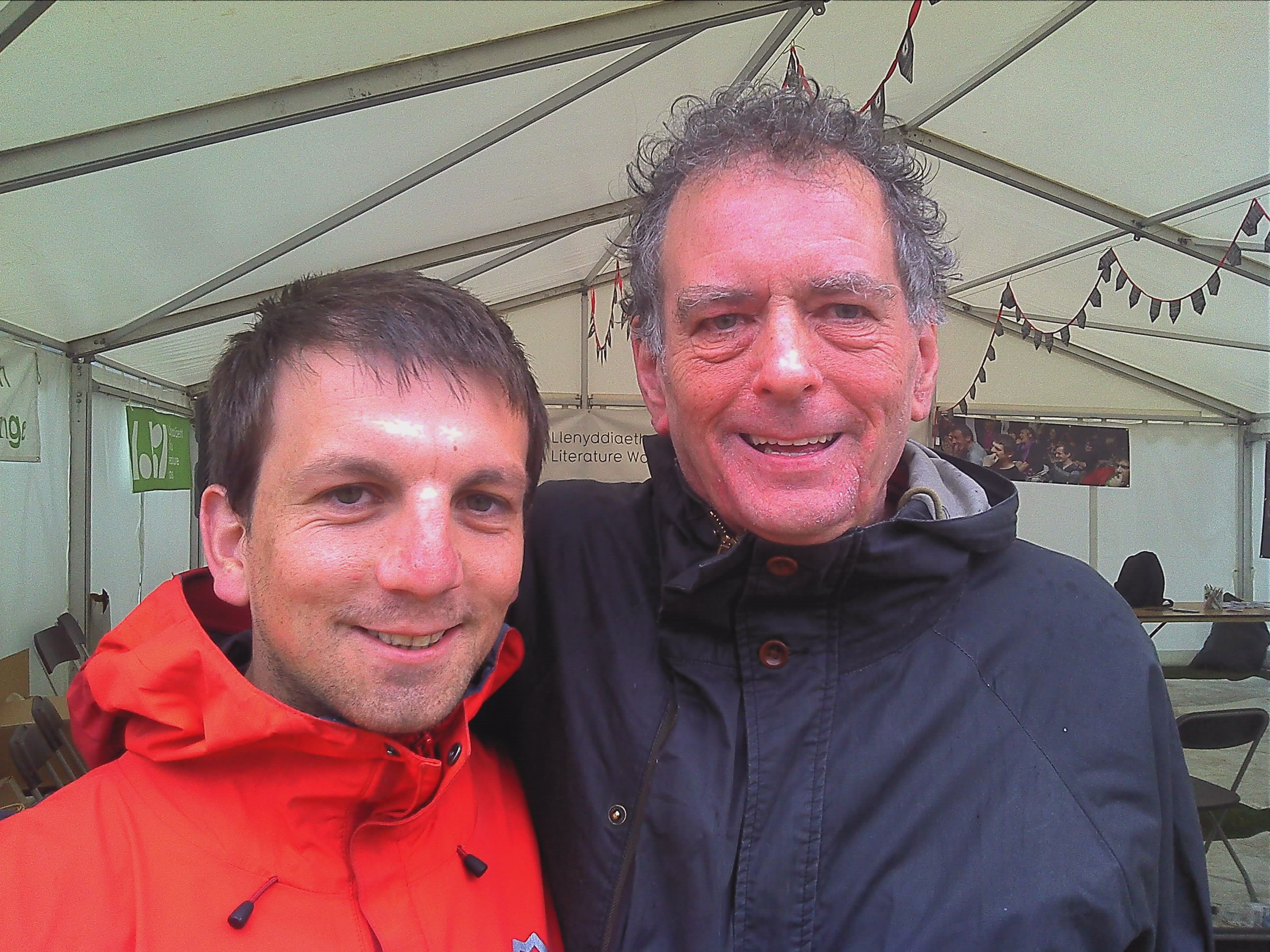 Osian Rhys Jones and Geraint Jarman, June 2012